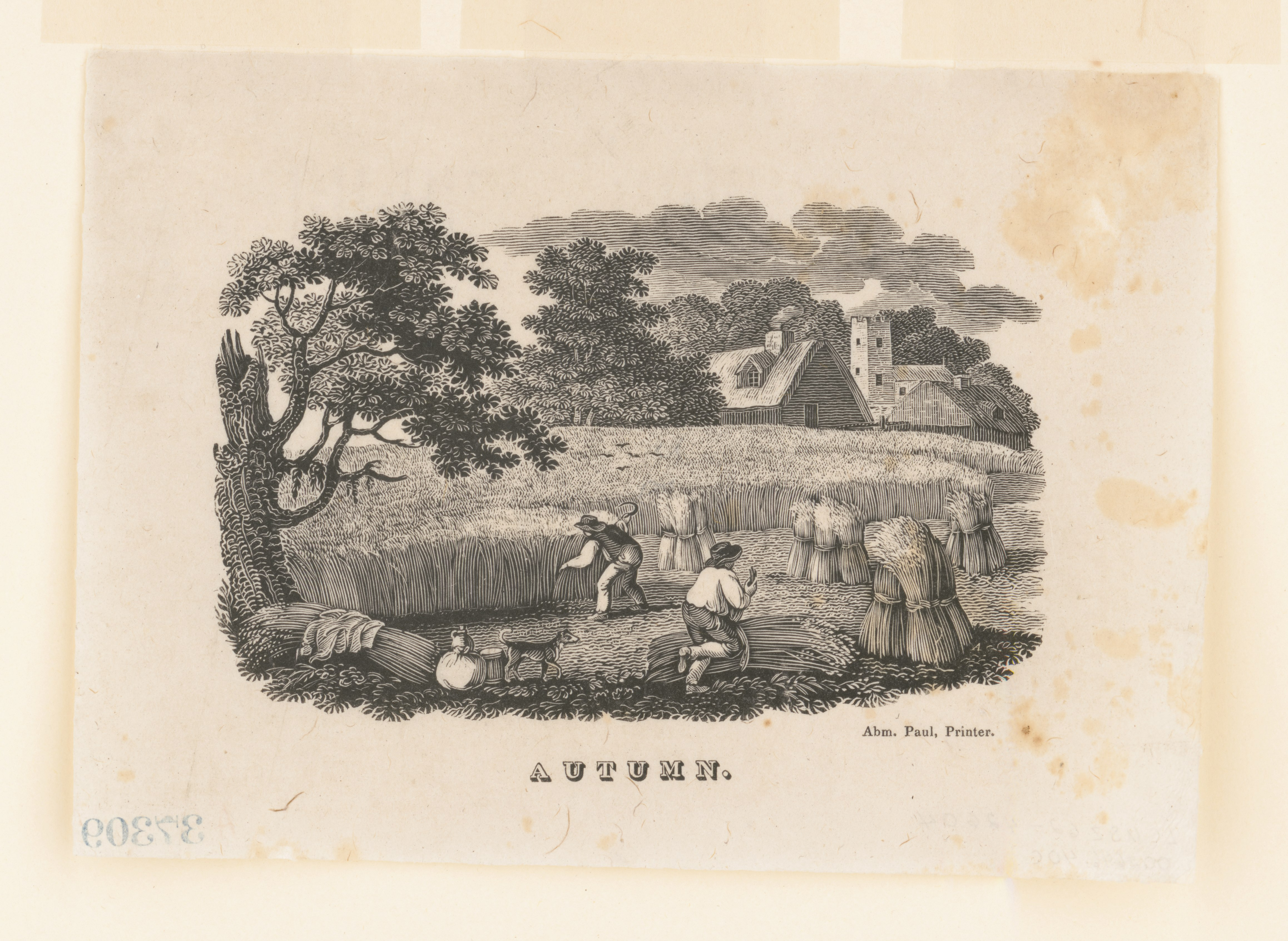 Title: Autumn / A. ; Abm. Paul printer. Abstract/medium: 1 print : wood engraving ; sheet 12.3 x 17.4 cm.